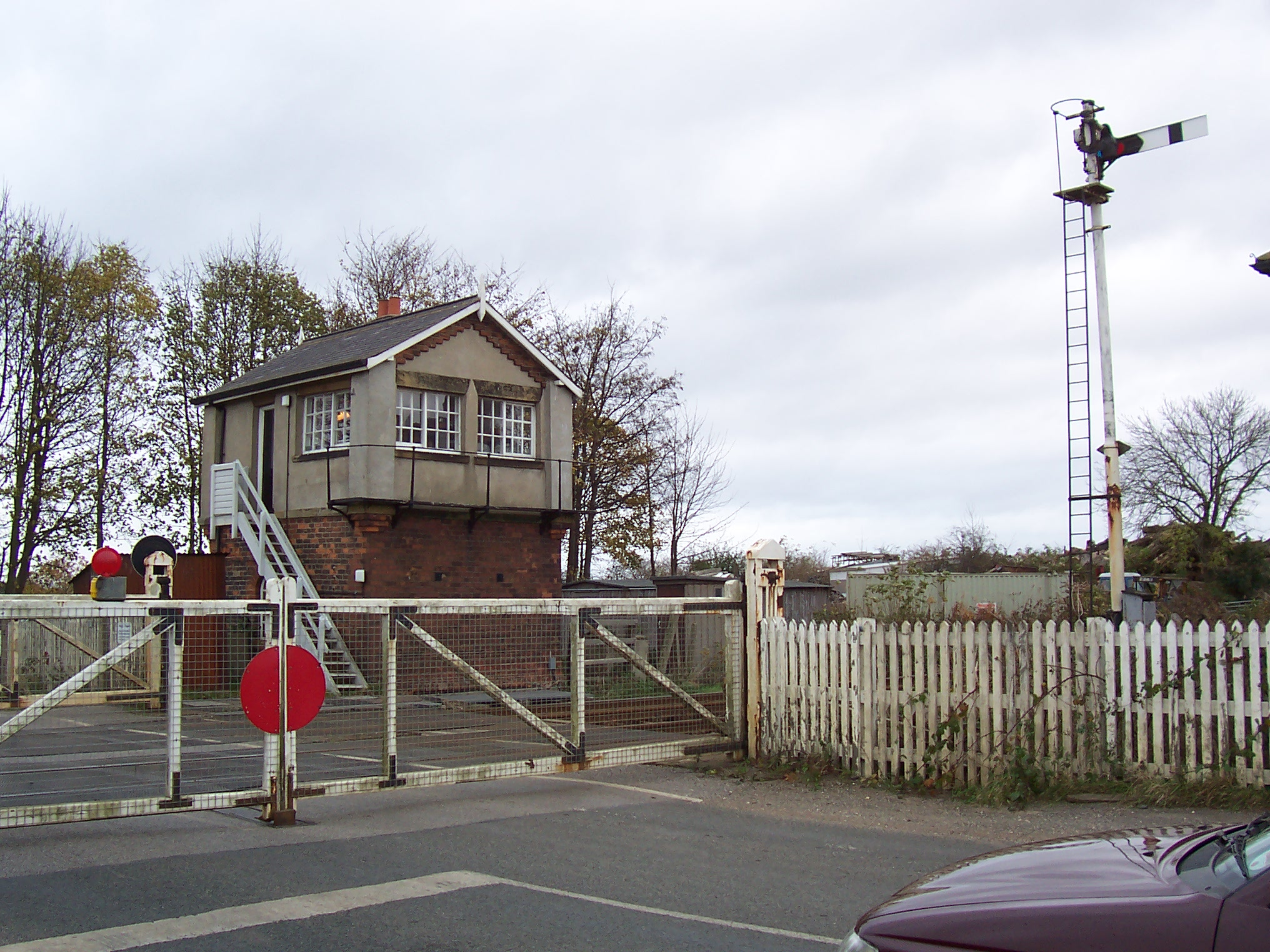 The signal box at the former Weaverthorpe railway station. By Will Arthur, 8th November 2007.